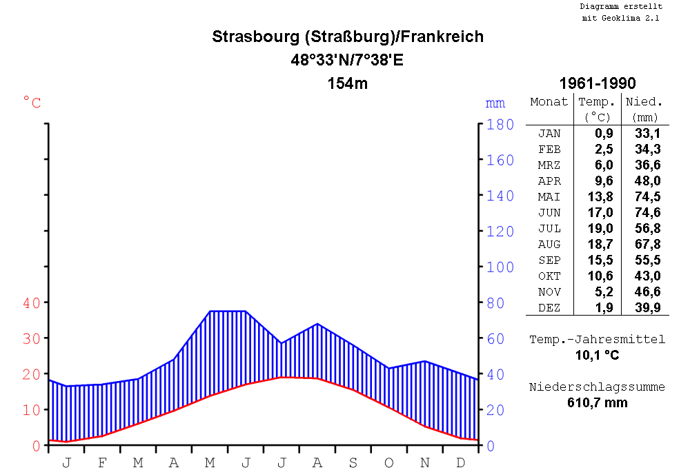 climate chart of Strasbourg, France, for the period of time from 1961 to 1990, in the format by Walter and Lieth, metric, °Celsius and millimeters, chart made with Geoklima 2.1, label in German